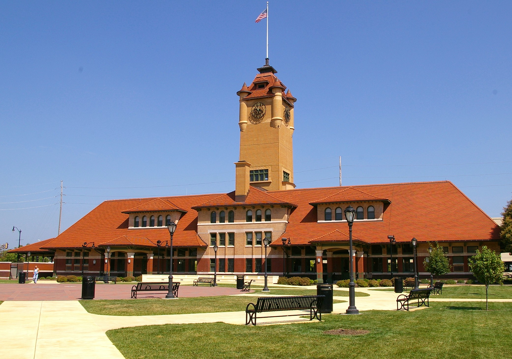 Known as Springfield Union Station since its completion in 1898. It was designed, built, and used predominantly by Illinois Central Railroad although other railroads, such as B&O, also used the station. Passenger service to this station ceased with the formation of Amtrak when all passenger operations where combined to the old C&A station a few blocks away. Restored in 2007 (including rebuilding the clock tower that had been removed in the 1930's). Now used as an Abraham Lincoln visitor library.